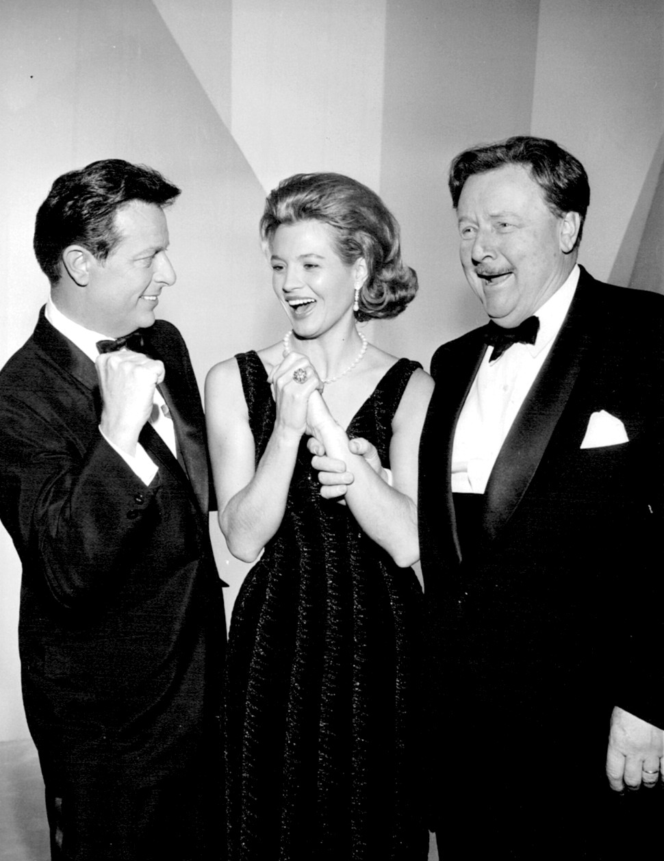 Photo of Stump the Stars host Mike Stokey welcoming guests Angie Dickinson and Walter Slezak. The item has no copyright markings on it as can be seen in the links above.